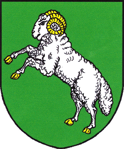 Municipal coat of arms of Počítky village, Žďár nad Sázavou District, Czech Republic.